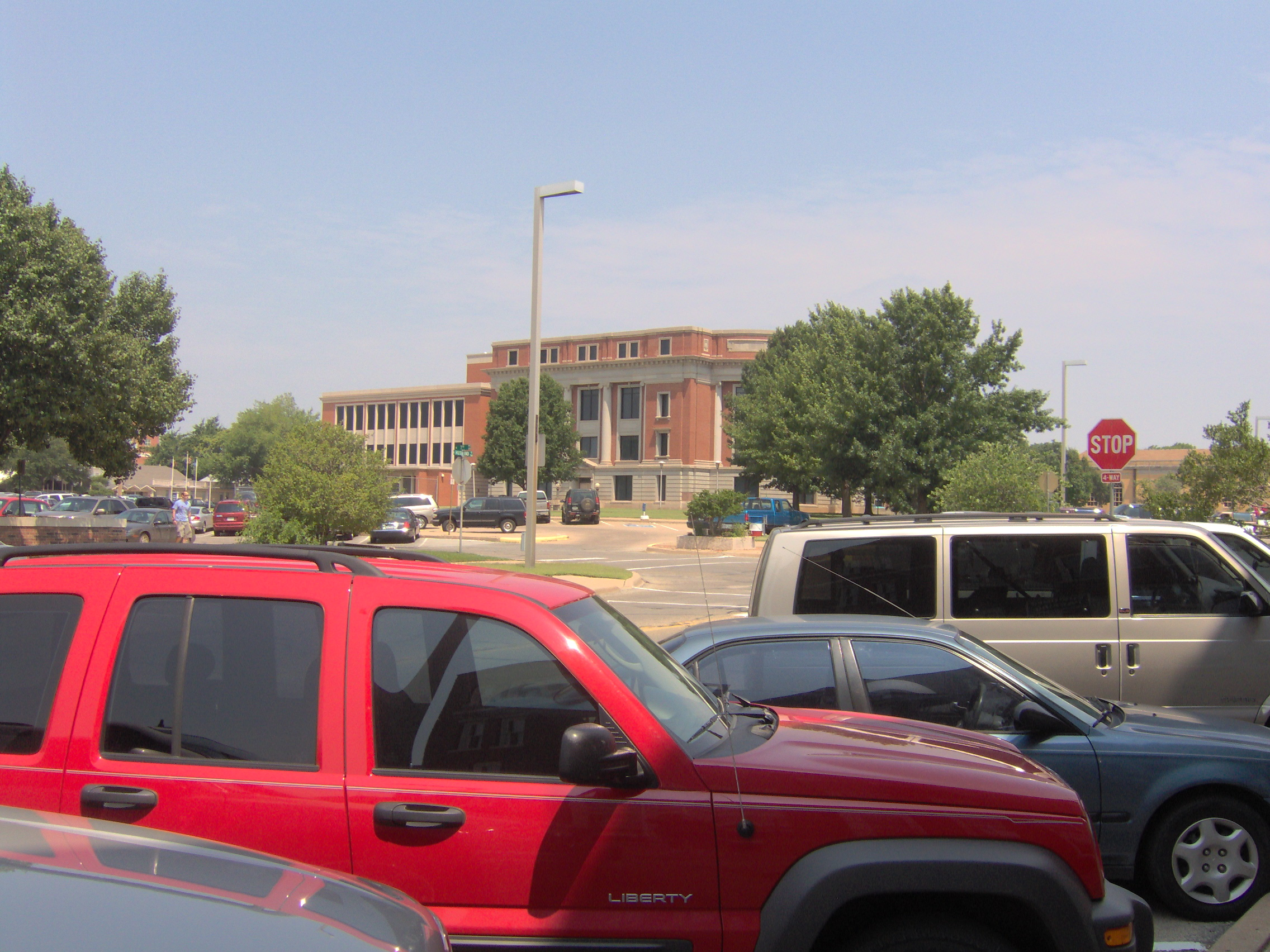 Southern side of the Payne County Courthouse, located at 606 S. Husband Street in Stillwater, Oklahoma, United States. Built in 1917, it is listed on the National Register of Historic Places.